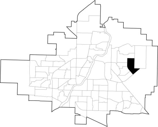 A map showing the location of the Willowgrove neighbourhood in relation to the other neighbourhoods in Saskatoon.